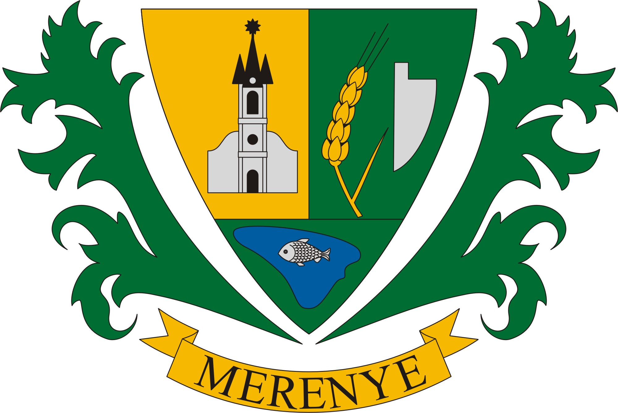 Coat of arms of Merenye, Hungary